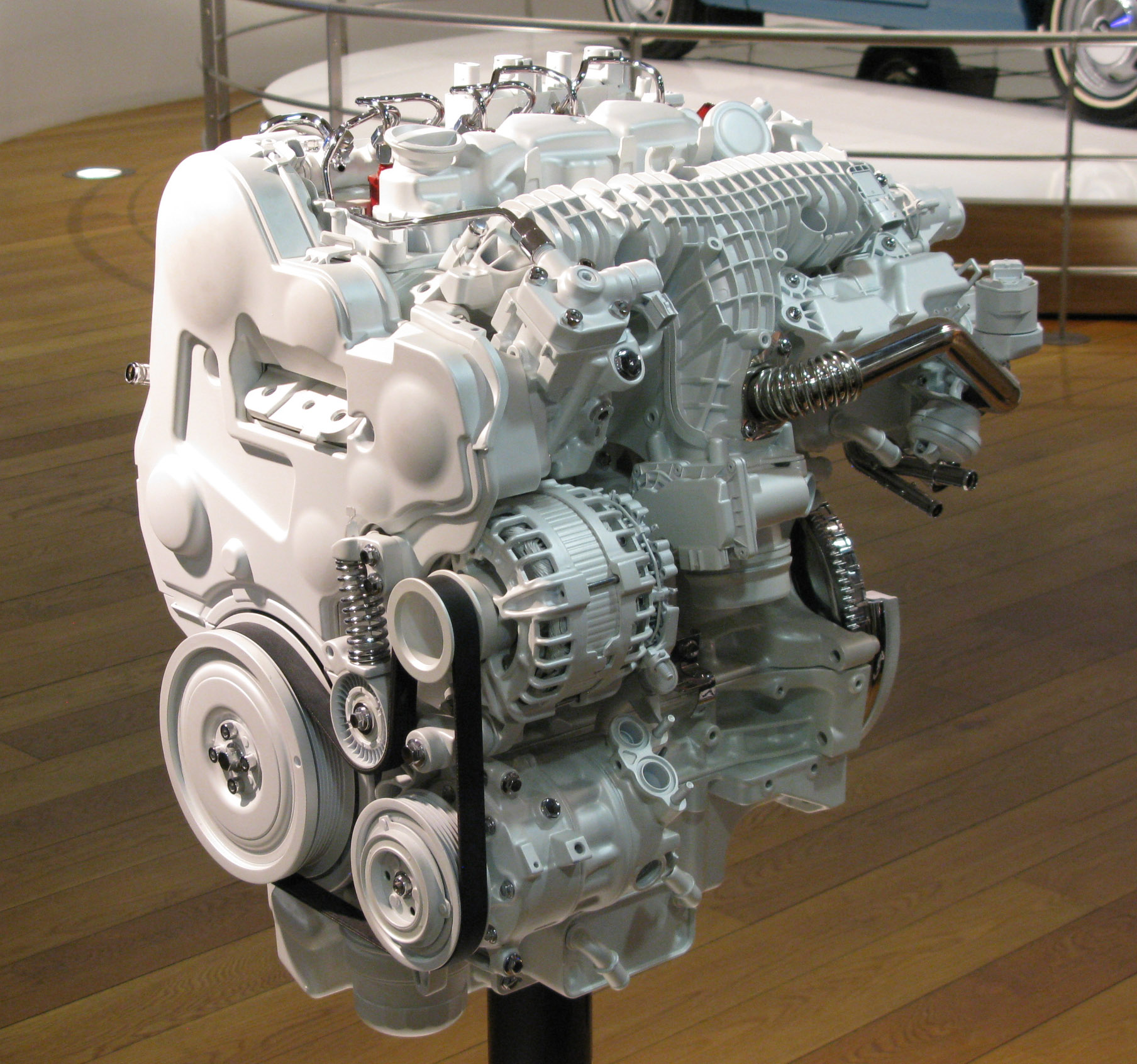 Volvo Engine Architecture diesel inlet side.